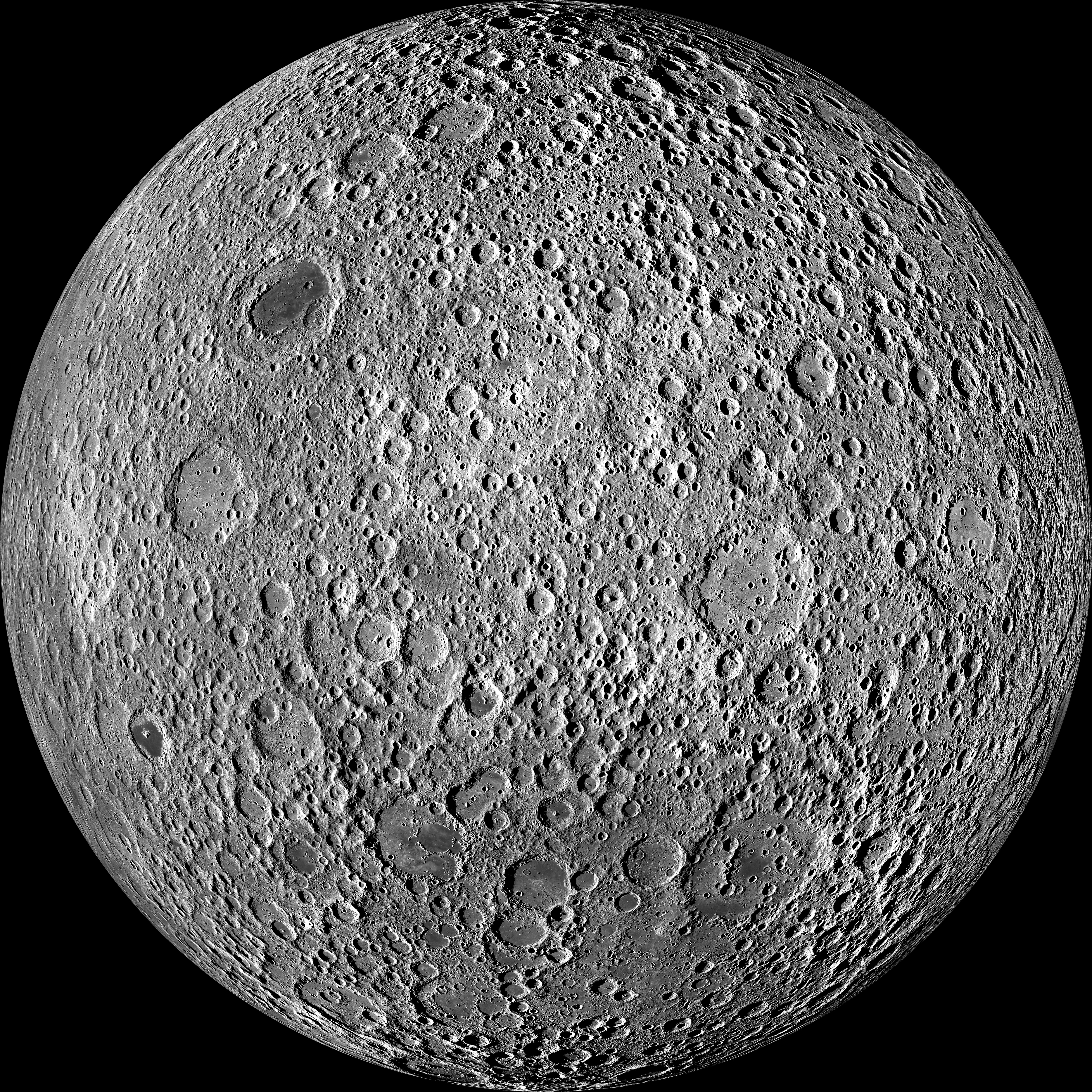 Moon farside: mosaic of images, made by Lunar Reconnaissance Orbiter (Wide Angle Camera). Centered on latitude 0.0, longitude 180. Brightness of the original image was increased.